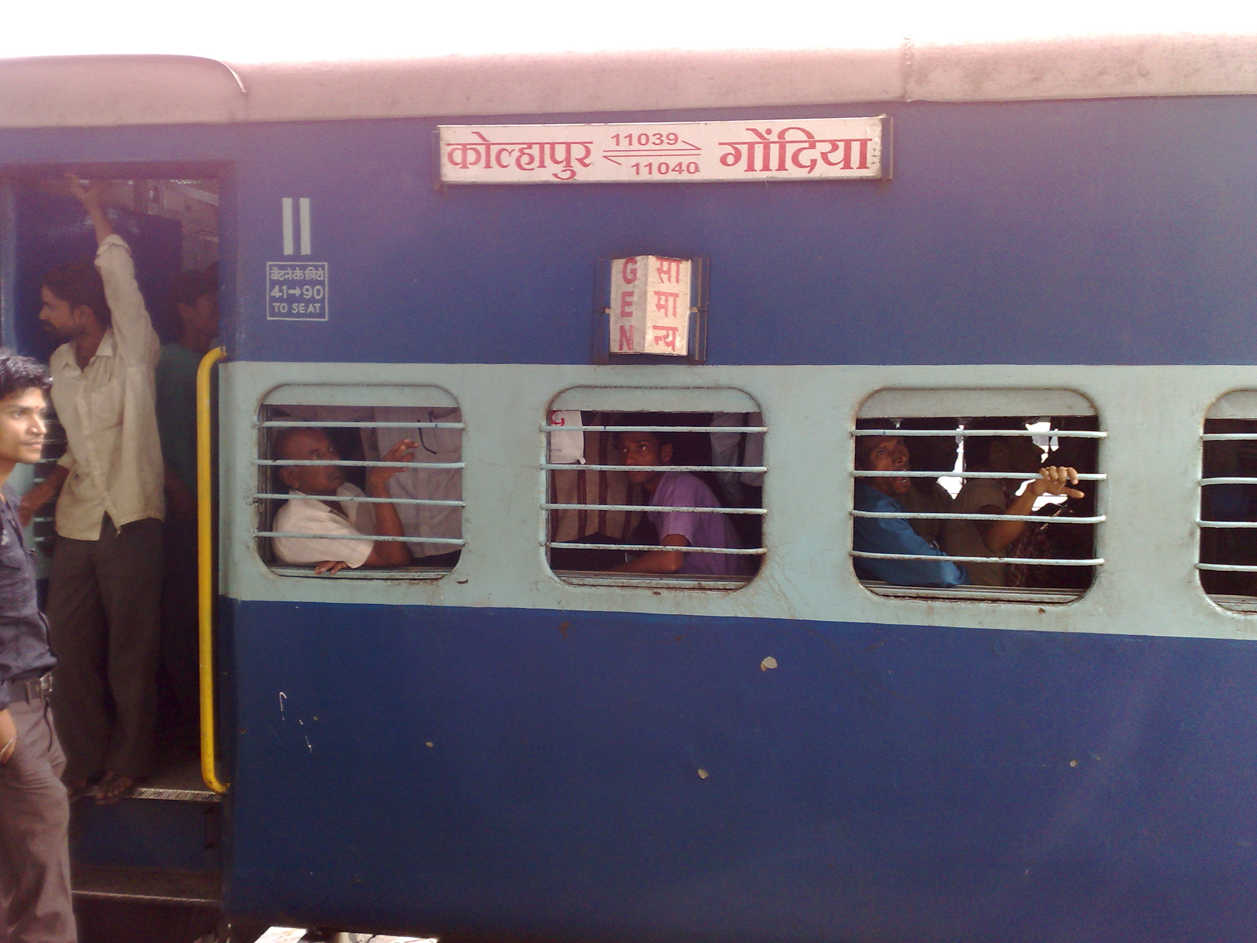 11040 Maharashtra Express